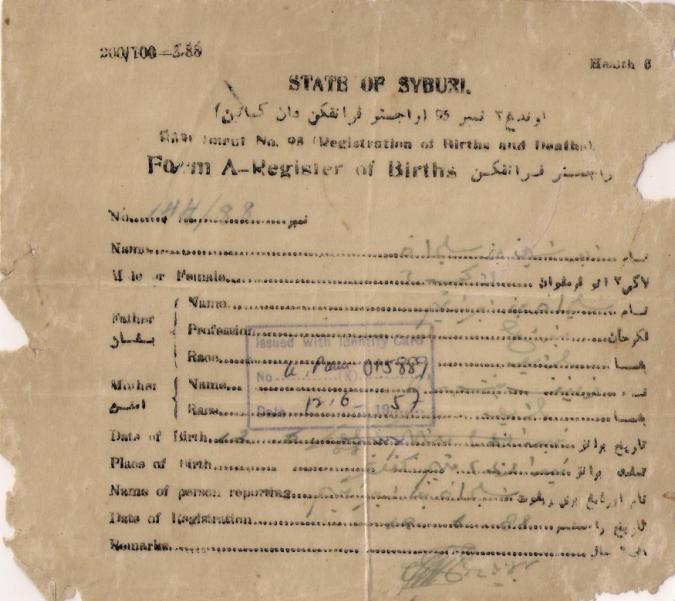 surat beranak